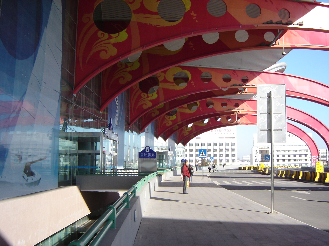 Airport Qingdao China